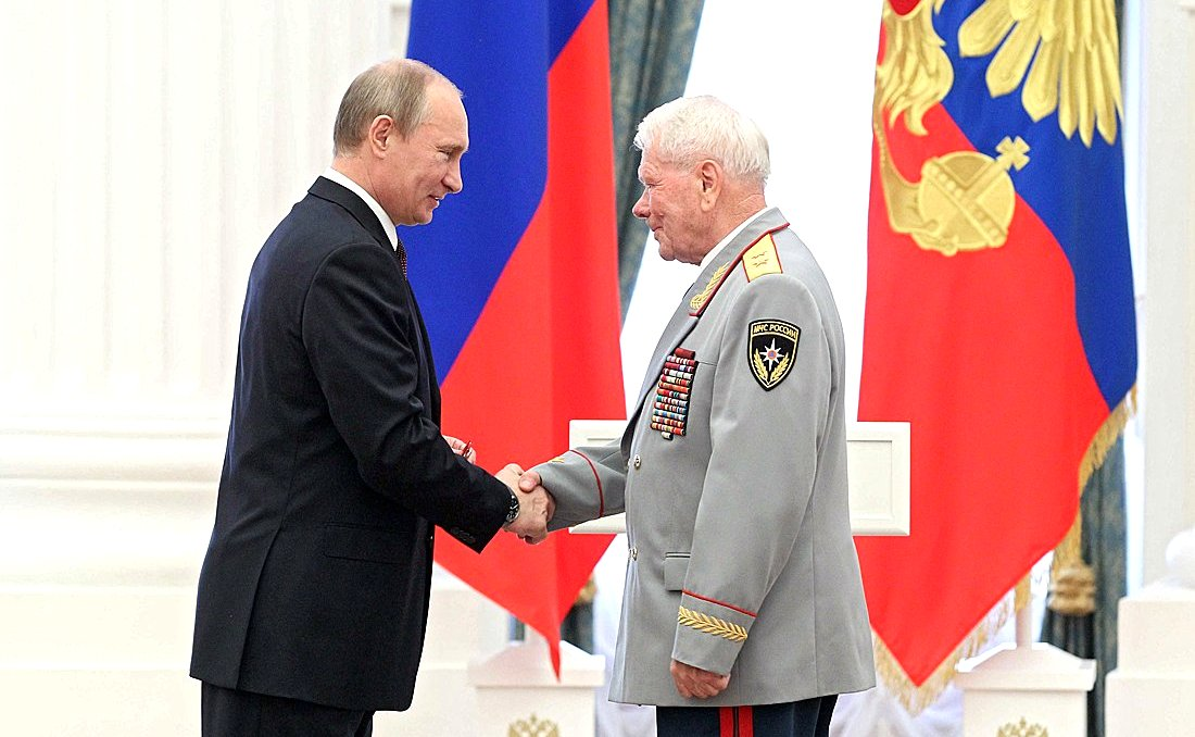 Russian President Vladimir Putin and Lieutenant General D.I. Mikhailik in the Moscow Kremlin at state awards ceremony